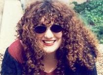 Yael Israel, israeli poet